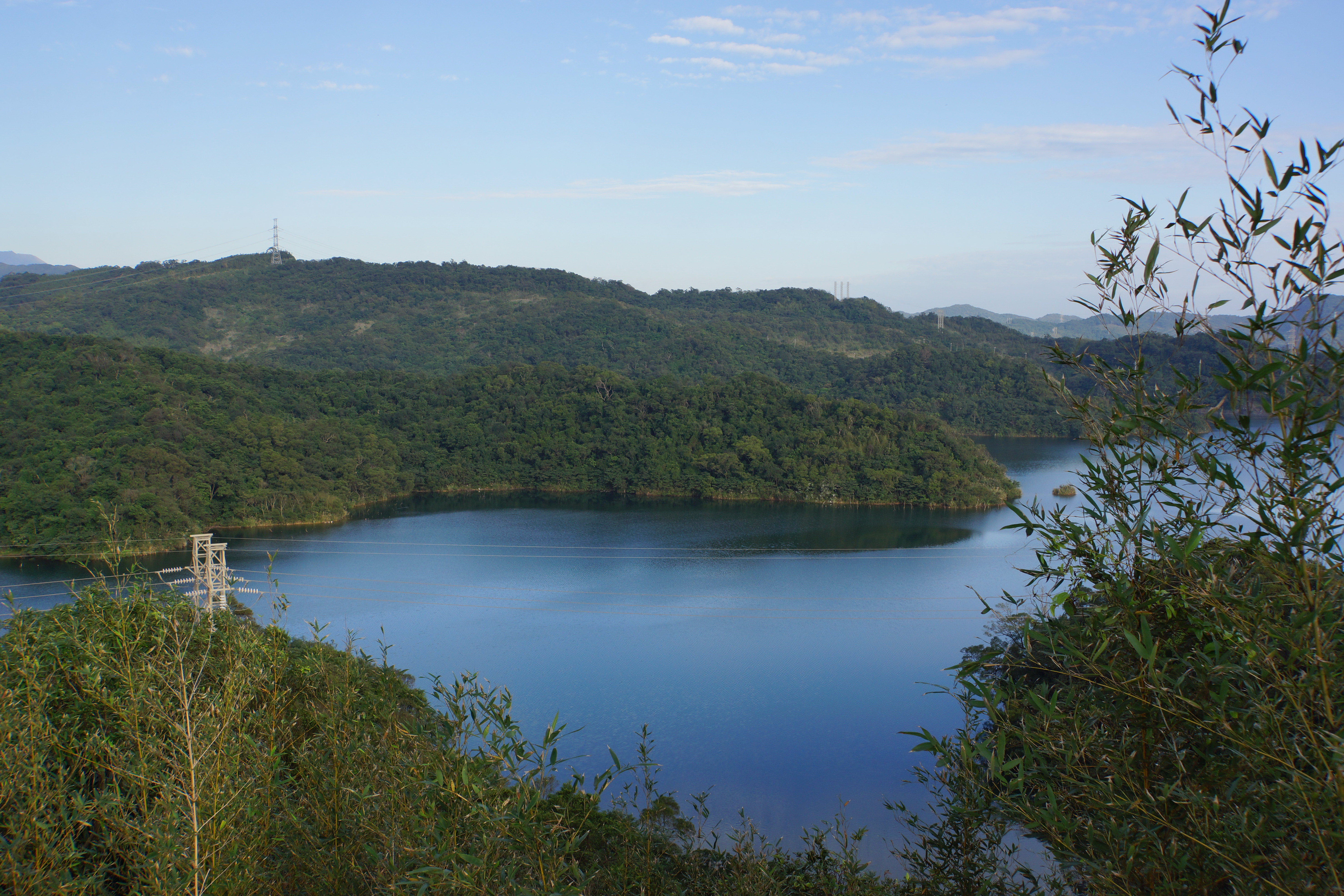 Shinshan Reservoir 新山水庫